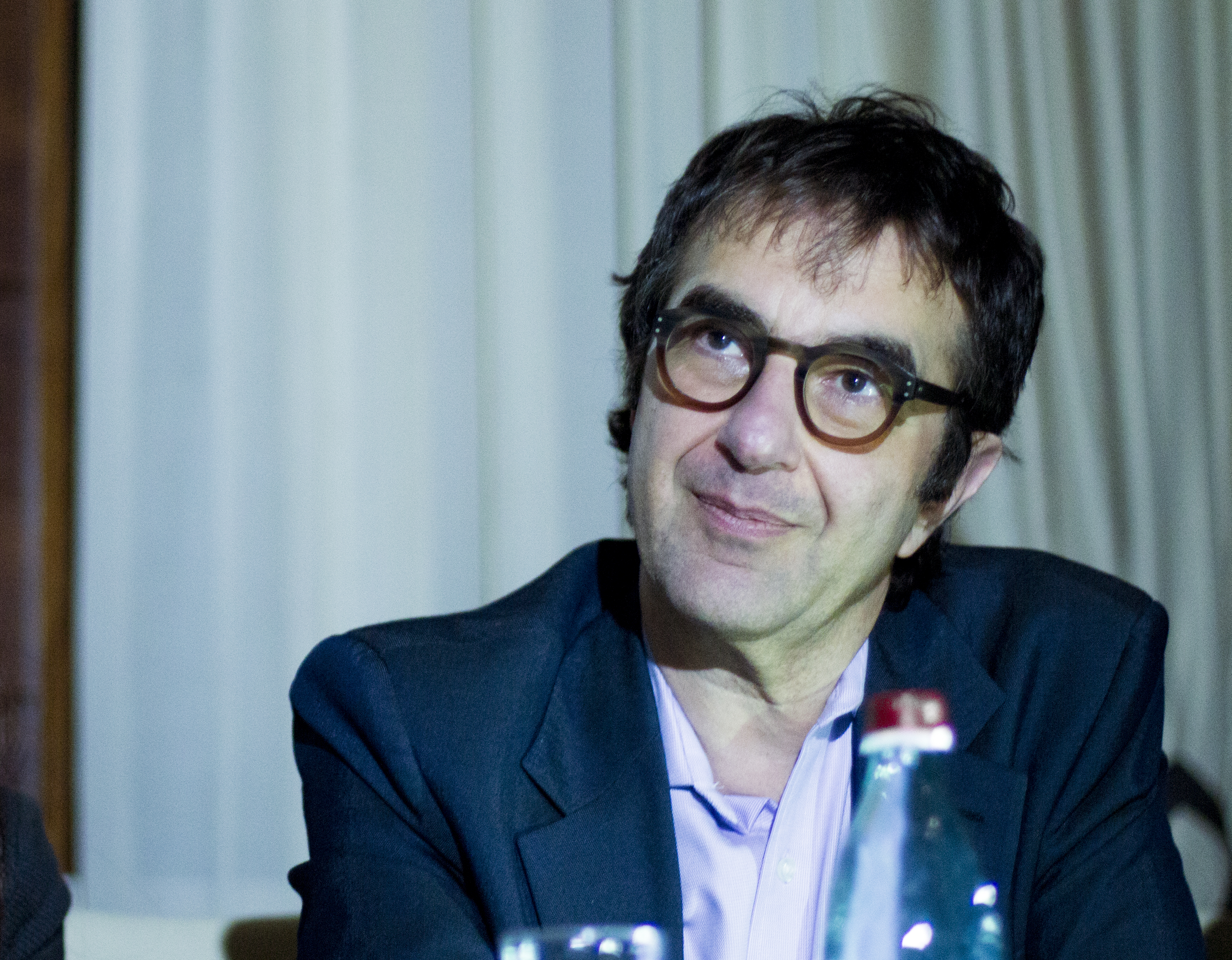 Atom Egoyan during a press conference n Stepanakert, Nagorno Karabakh